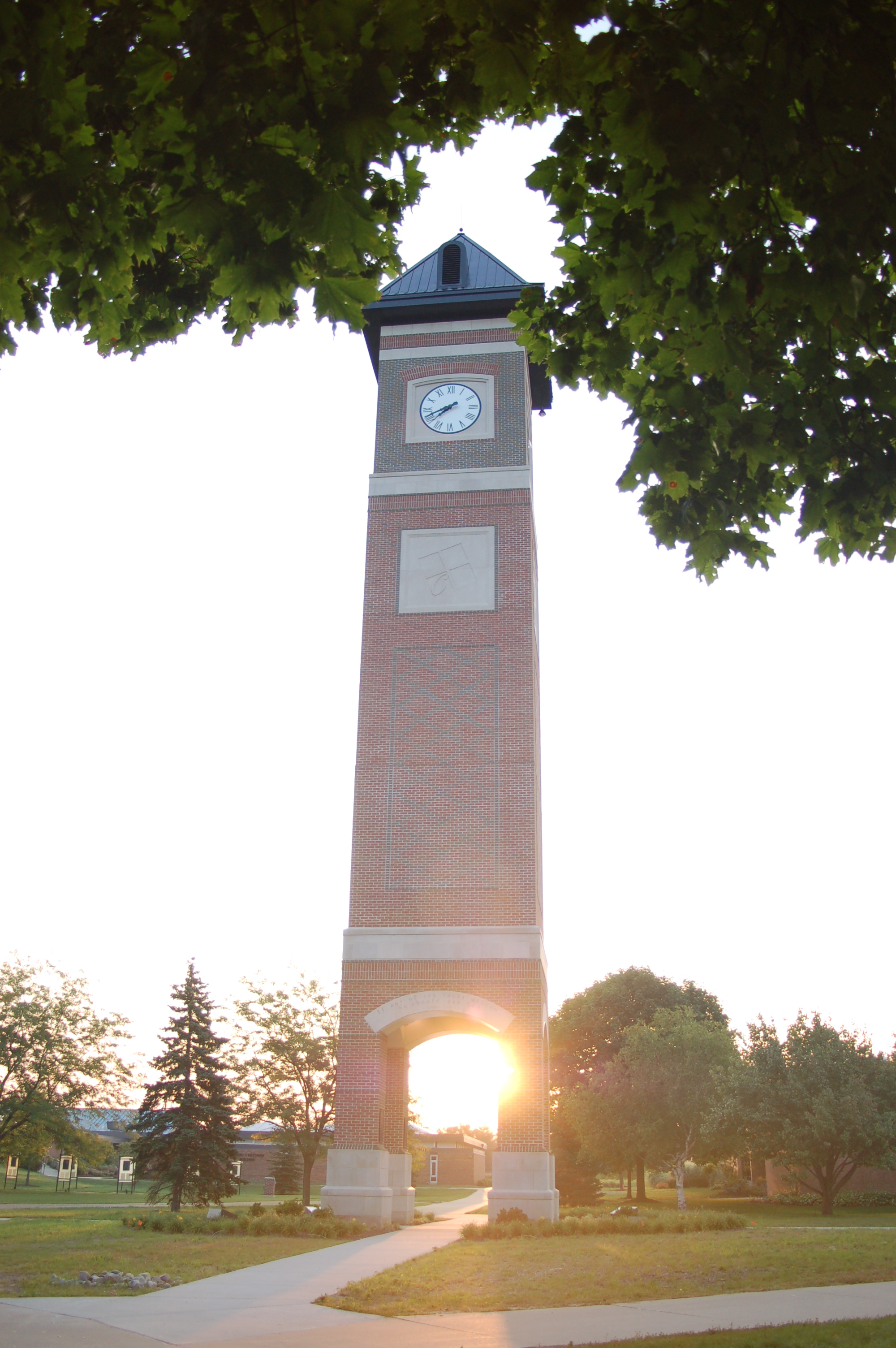 Welch clock tower at Cornerstone University, in Grand Rapids Michigan.